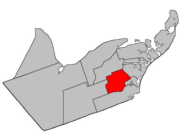 Location of Sainte-Isidore Parish within Gloucester County, New Brunswick, Canada.